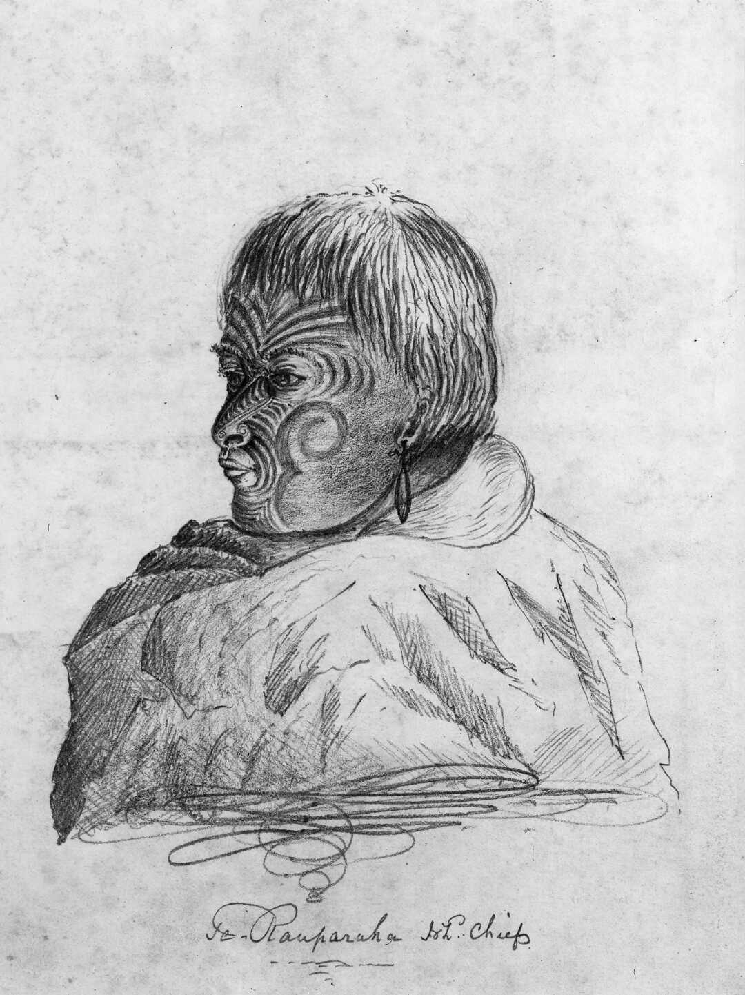 [Heaphy, Charles], 1820-1881 :Te Rauparaha, N.Z. chief. [1839]. Reference Number: A-146-006 Shows head and shoulders portrait of Te Rauparaha with moko, earring, and wrapped in a blanket around the shoulders. Key terms: 1 image, categorised under Ethnographic images, Portraits and Photographs, related to d Te Rauparaha, Ngati Toa, Rangatira, Men, Maori and Maori - Moko. Part of: [Heaphy, Charles], 1820-1881 :Te Rauparaha, N.Z. chief. [1839]., Reference Number A-146-006 (1 digitised items) Extent: 1 b&w photo-mechanical print(s)Photographic print of wash drawing, approximately 250 x 200 mm.. Vertical imageSingle art work Conditions governing access to original: Partial restriction - Use photographic copy in preference to original. Other copies available: File PrintIn Drawings & Prints under Artist/Title (DFP-005975) Usage: You can search, browse, print and download items from this website for research and personal study. You are welcome to reproduce the above image(s) on your blog or another website, but please maintain the integrity of the image (i.e. don't crop, recolour or overprint it), reproduce the image's caption information and link back to here ( If you would like to use the above image(s) in a different way (e.g. in a print publication), or use the transcription or translation, permission must be obtained. More information about copyright and usage can be found on the Copyright and Usage page of the NLNZ web site.